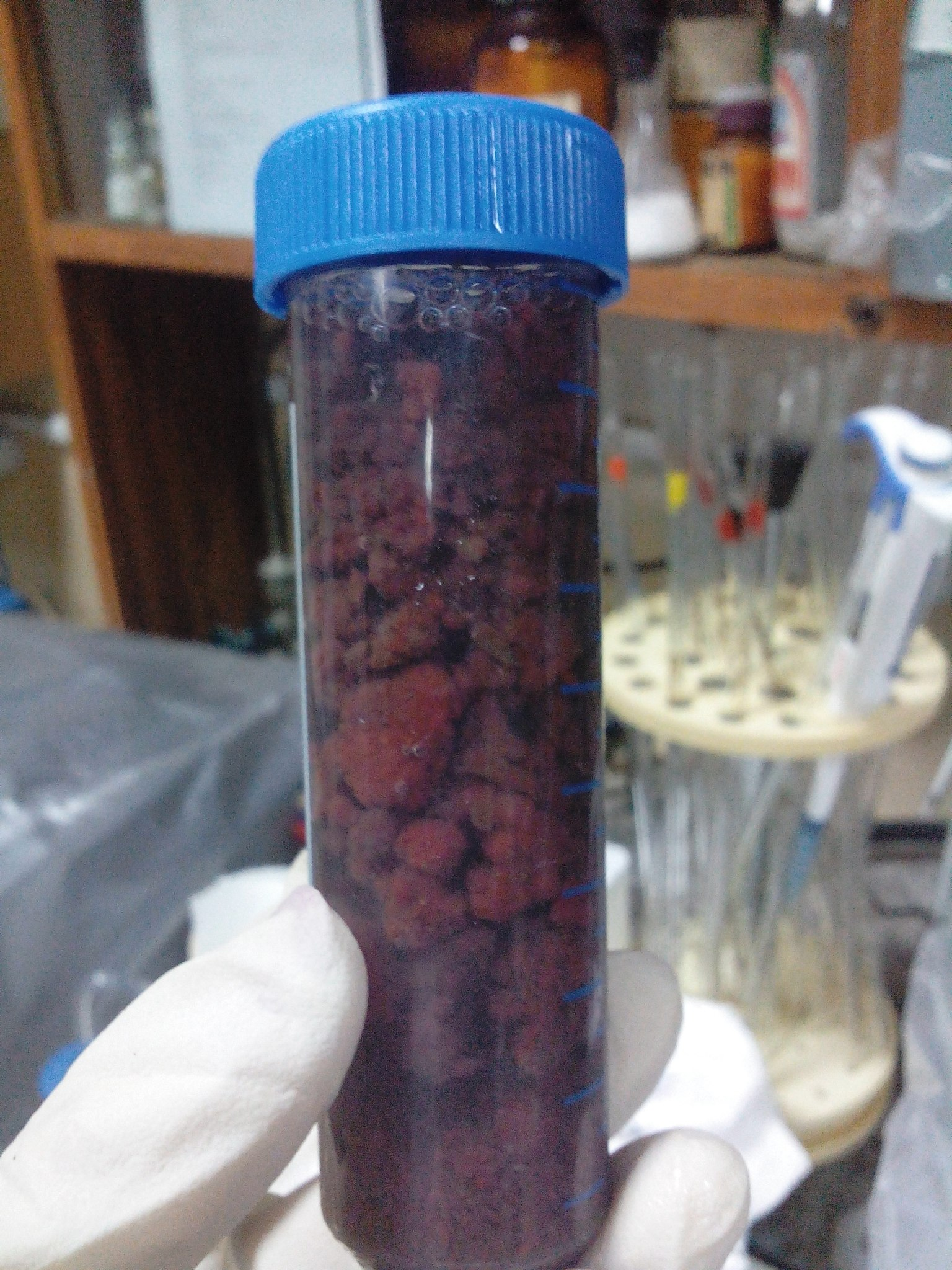 Anammox bacteria from a microbiological reactor. Colonies are dark red in colour due to the high content of haeme iron.